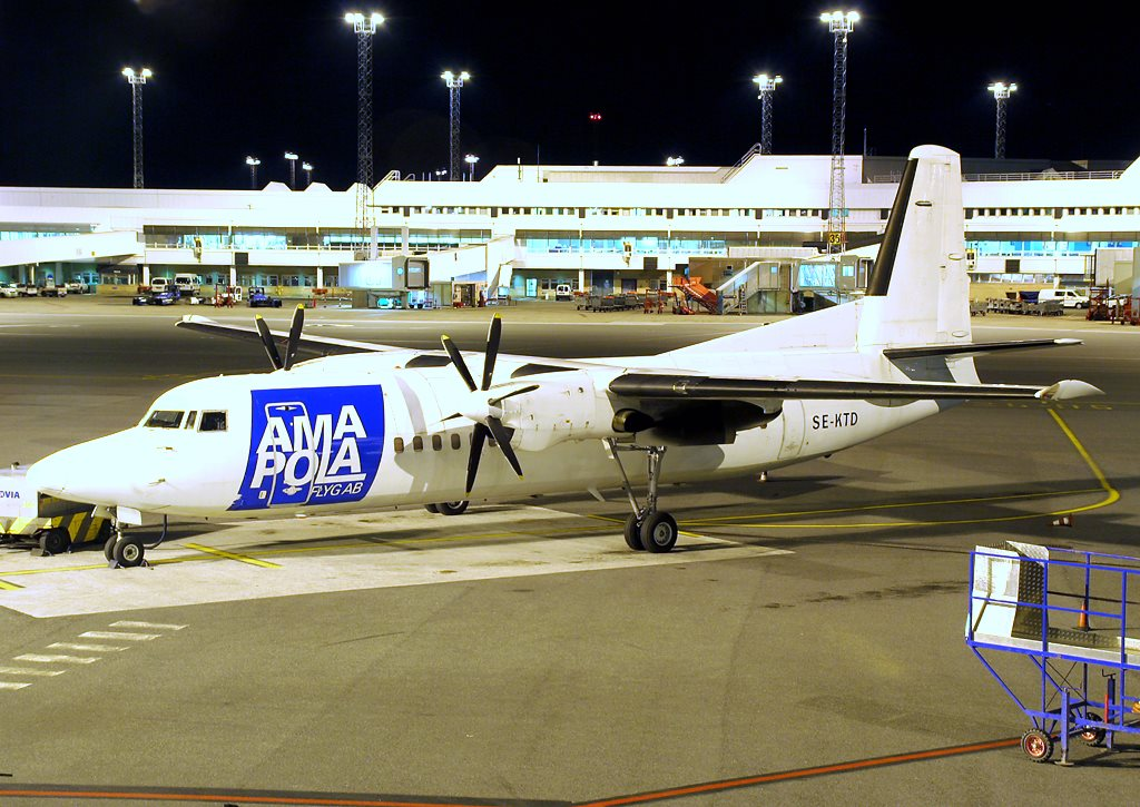 Amapola Flyg Fokker 50 (SE-KTD) at Stockholm-Arlanda Airport